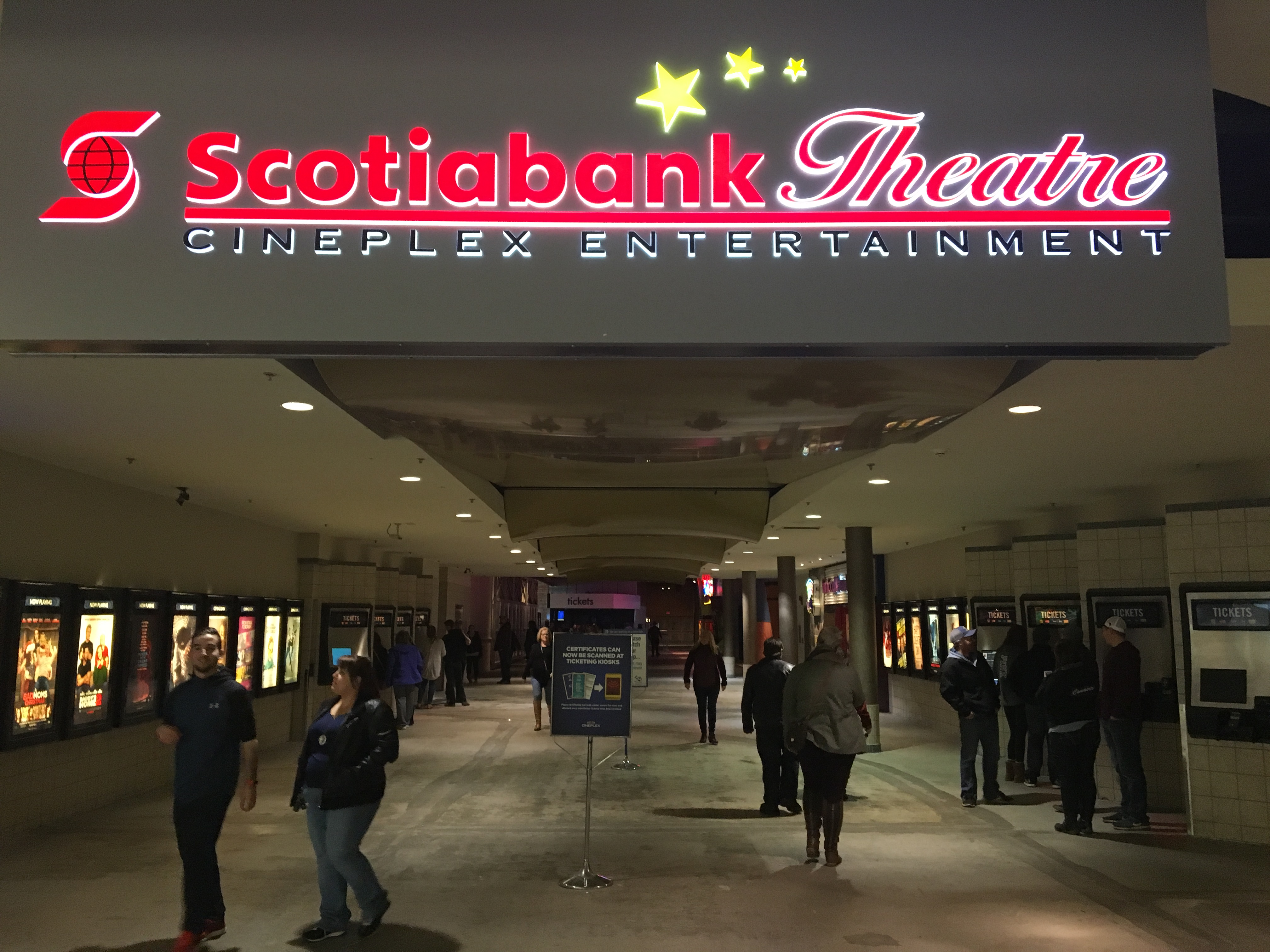 Scotiabank Theatre in St. John’s, NL. Formerly Cineplex Cinemas, Formely Empire Theatres Studio 12